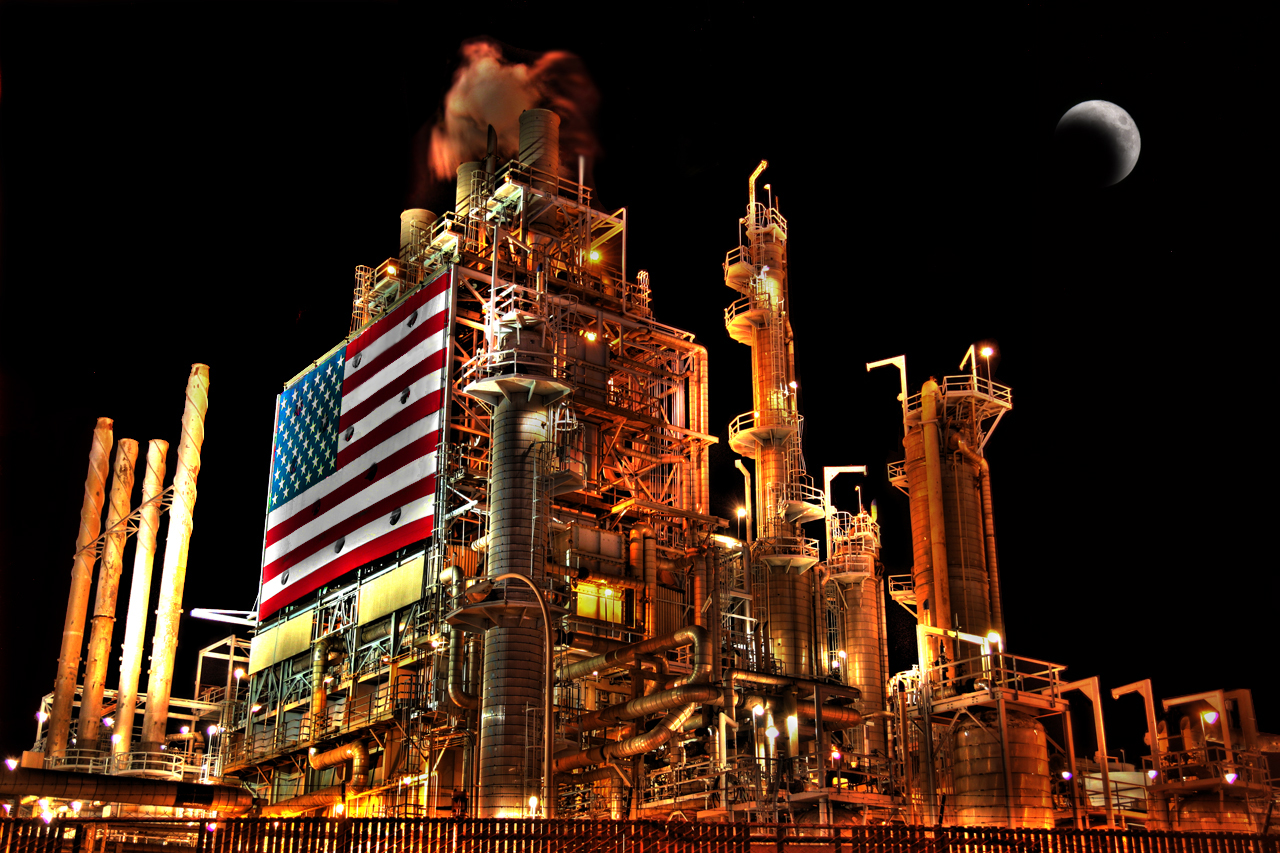 So I've passed this on the 405 nearly my whole life and I never stopped to really look at it...but the other day I took a wrong turn and made an adventure of it...this factory is pretty beautiful for an eyesore huh? Trust me, VIEW LARGE!!!